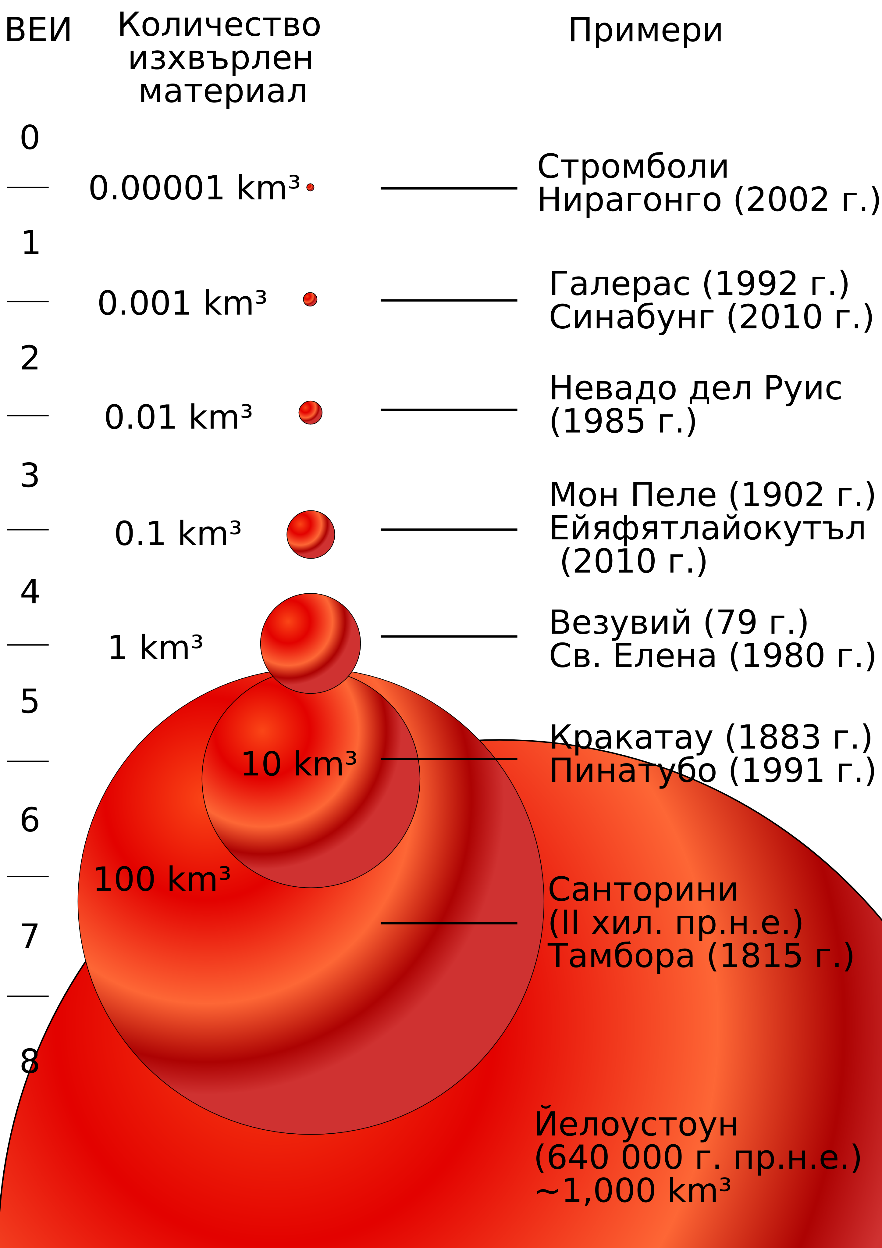 Вулканичен експлозивен индекс (ВЕИ) графика на количество изхвърлен материал